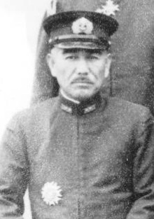 Mitsumi Shimizu is an Japanese Imperial Navy Vice Admiral